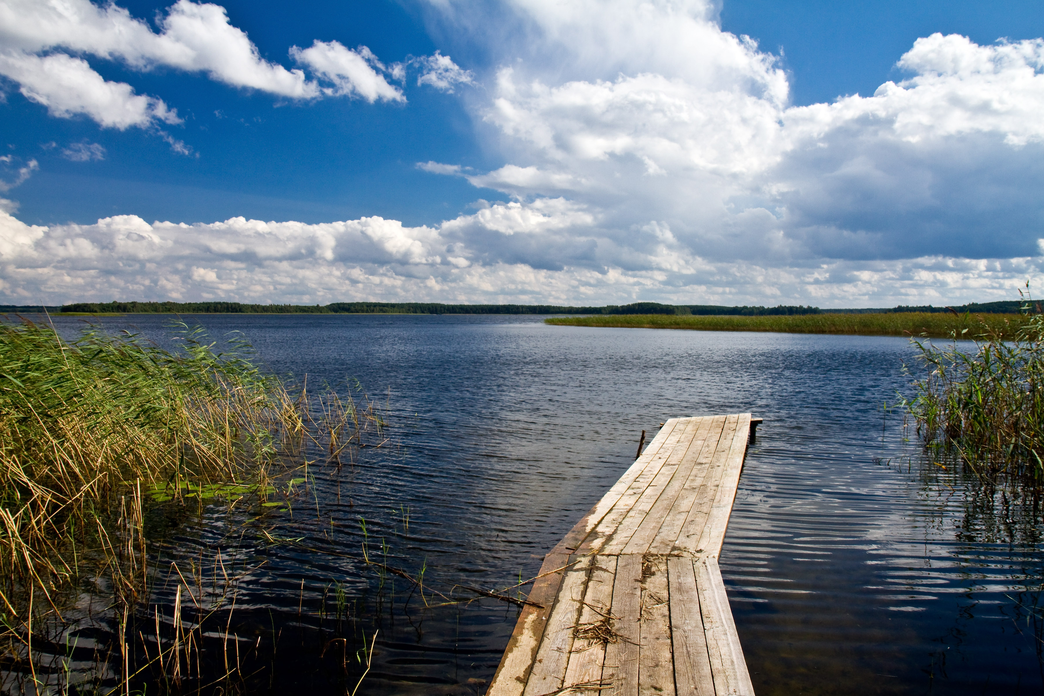 Strusta Lake. Brasłau district, Viciebsk province, Belarus.